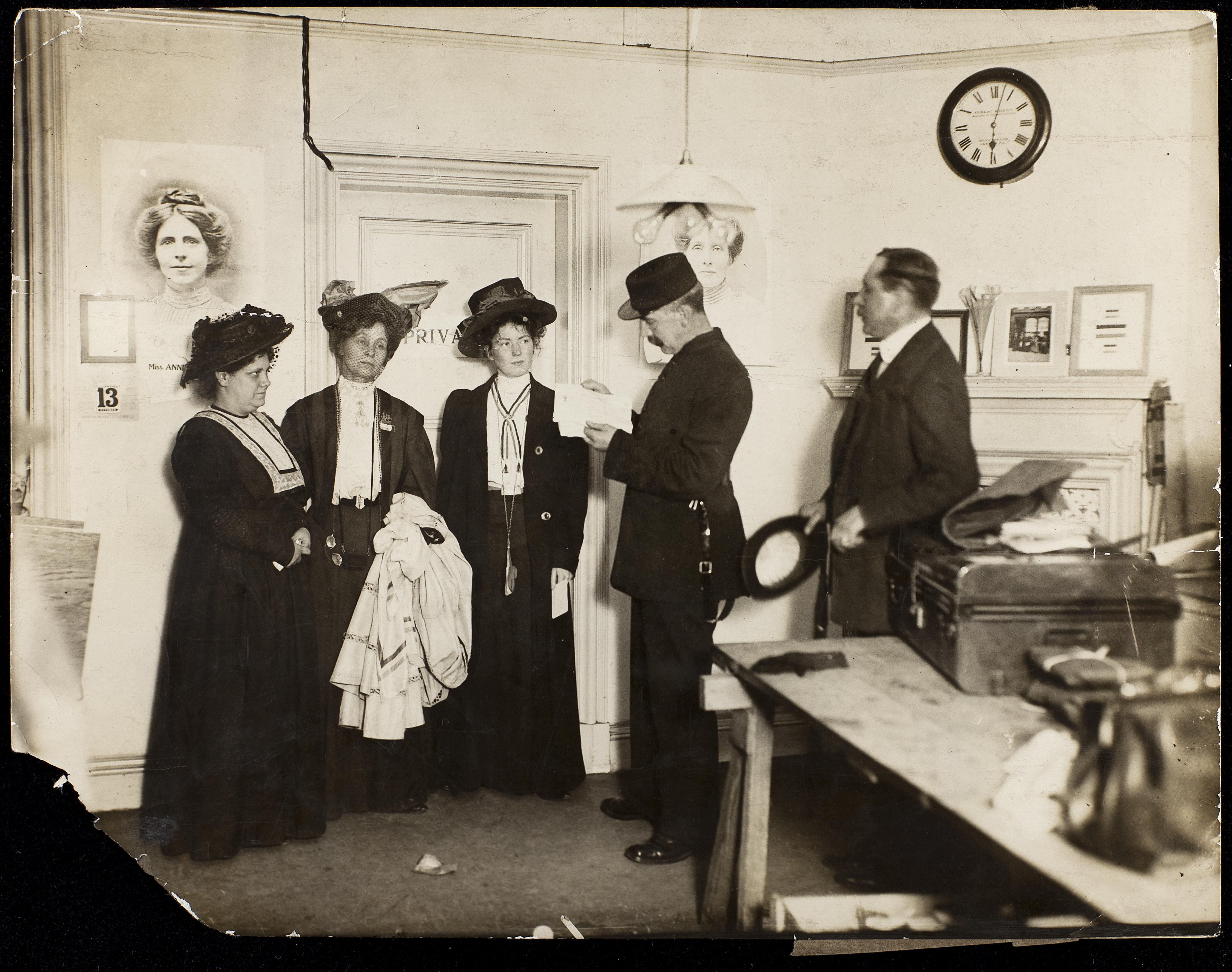 7JCC/O/02/064